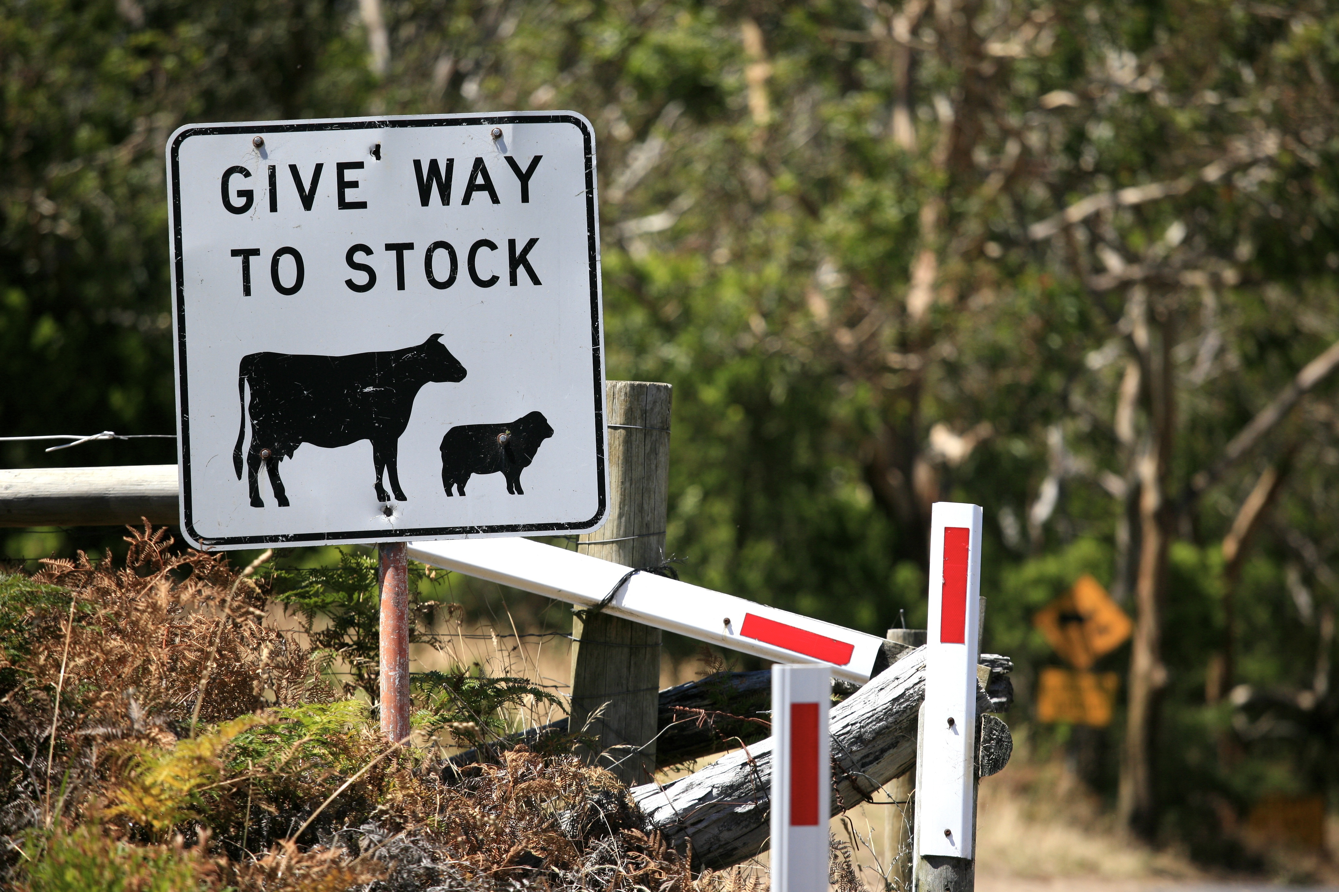 Give Way To Stock